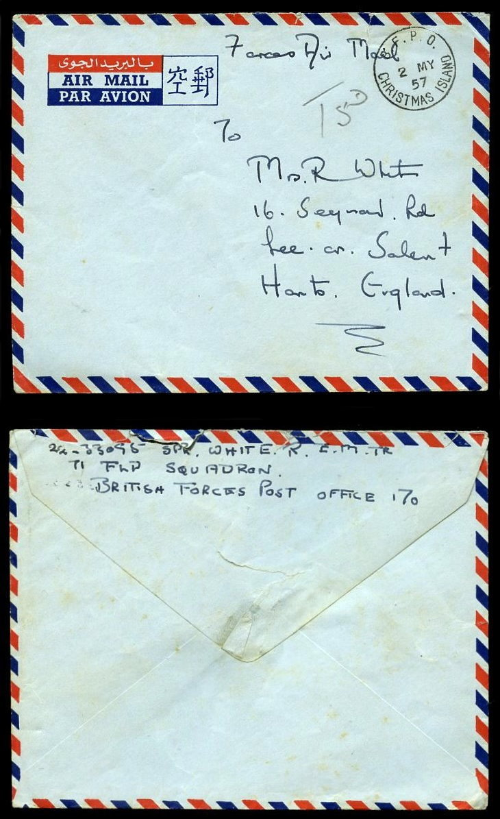 BFPO cover from Christmas Island 1957 front and back.